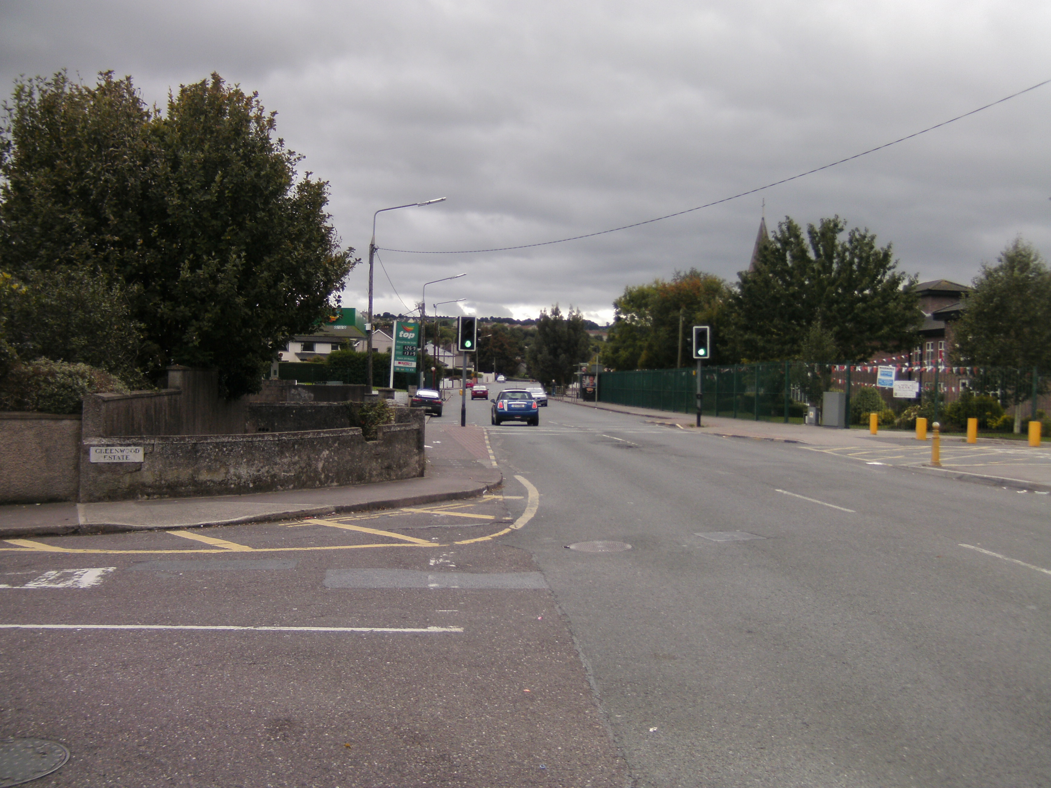 Picture of Togher Road From the North